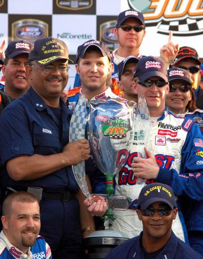 Description: Rear Adm. Stephen Rochon and NASCAR driver Jeff Burton hold the victory trophy from the Nicorette 300, Busch Serries(sic) NASCAR race. The win was the first victory for team Coast Guard during 2006. Slug 060318-A-8888T-001 (FR) Location ATLANTA, Georgia United States Special Instructions 060318-A-8888T-001 (FR) Object Name NASCAR VICTORY (FOR RELEASE) Credit US COAST GUARD DIGITAL Server Name cgvi.uscg.mil:80 PLS ImageID 250597 Picture Desk ImageID 05DD1 Committed Yes (Platter 7A) Database Photo